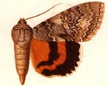 PLATE CXCVII.